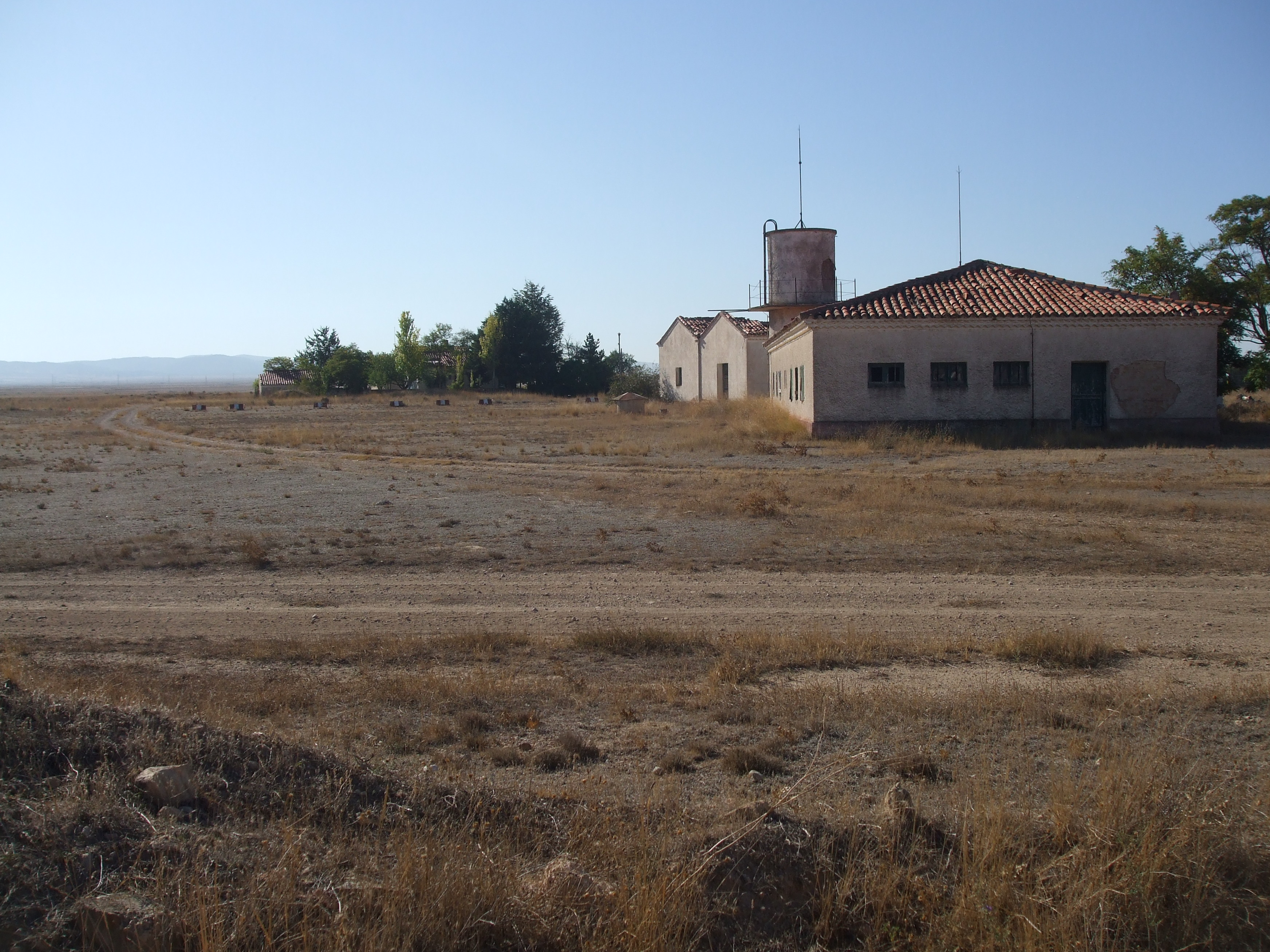 The fomer military airfield "Calamocha" lies just outside to the southeast of Calamocha's urban area in lower Aragon. After it was disposed of by the Spanish military it is no longer used for aviation purposes. Further former airfields in Jiloca county were located at Ojos Negros and Bello.